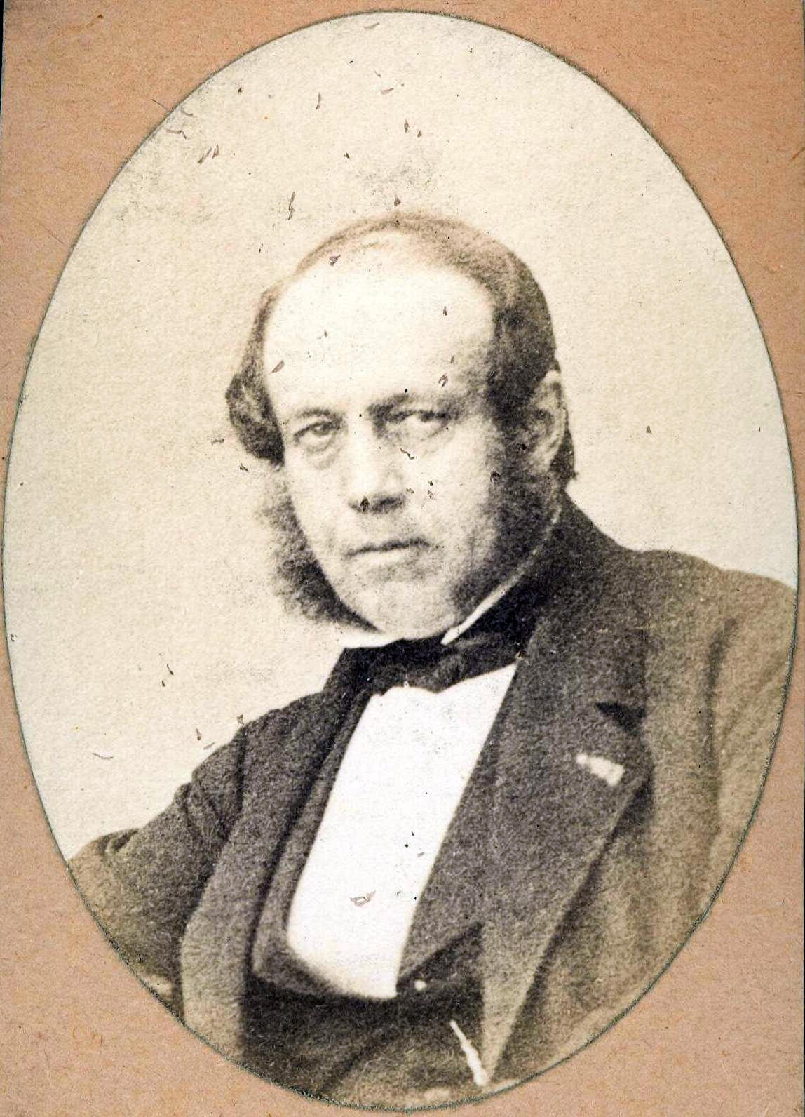 François Gerard Abraham Gevers Deynoot (1814-1882), Mayor of The Hague from 1858 to 1882. This image is available from the Netherlands Institute for Art Historyunder digital ID 161511. This tag does not indicate the copyright status of the attached work. A normal copyright tag is still required. See Commons:Licensing.